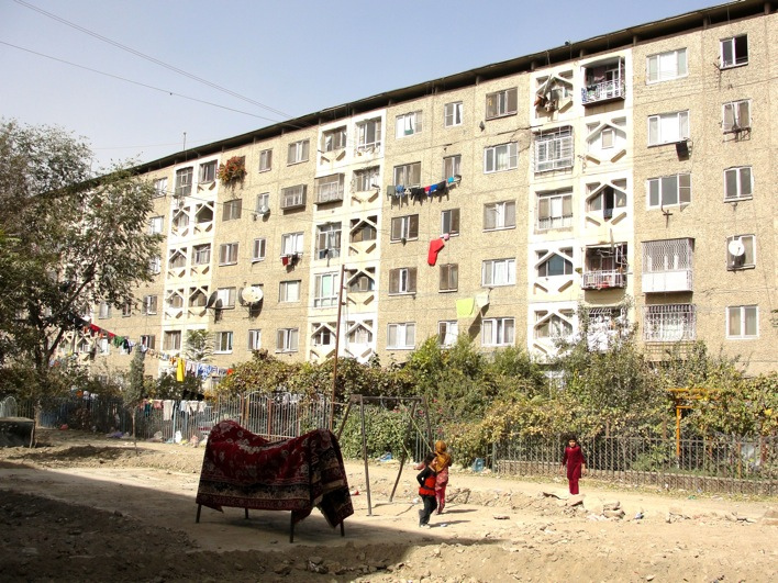 Blocks of flats built by the Soviets. Very eastern Europe and very popular in Kabul. You have to be a member of the army or the government to get an apartment in one of the projects.